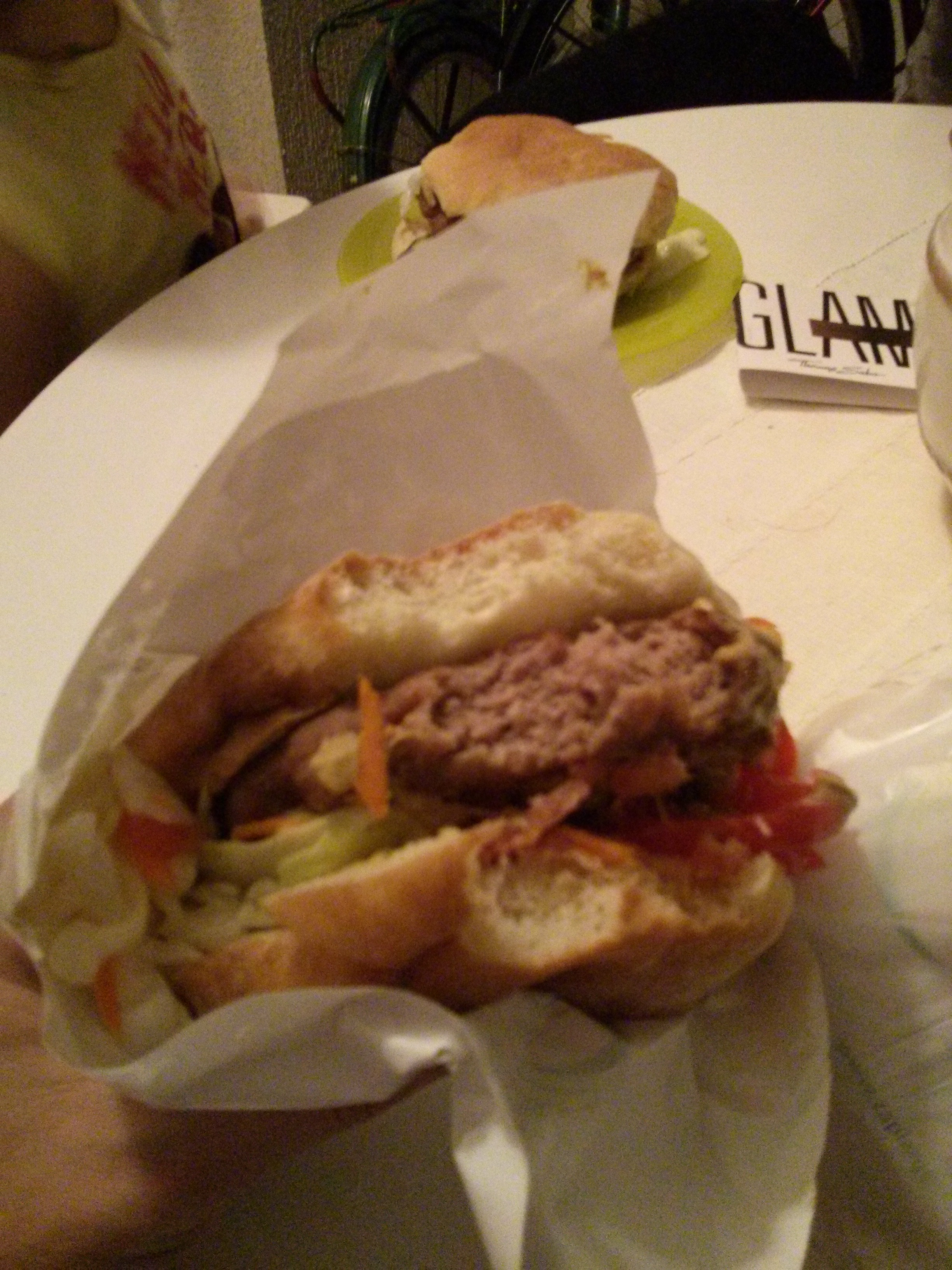 Serbian pljeskavica, served on a piece of bread with self chosen topping